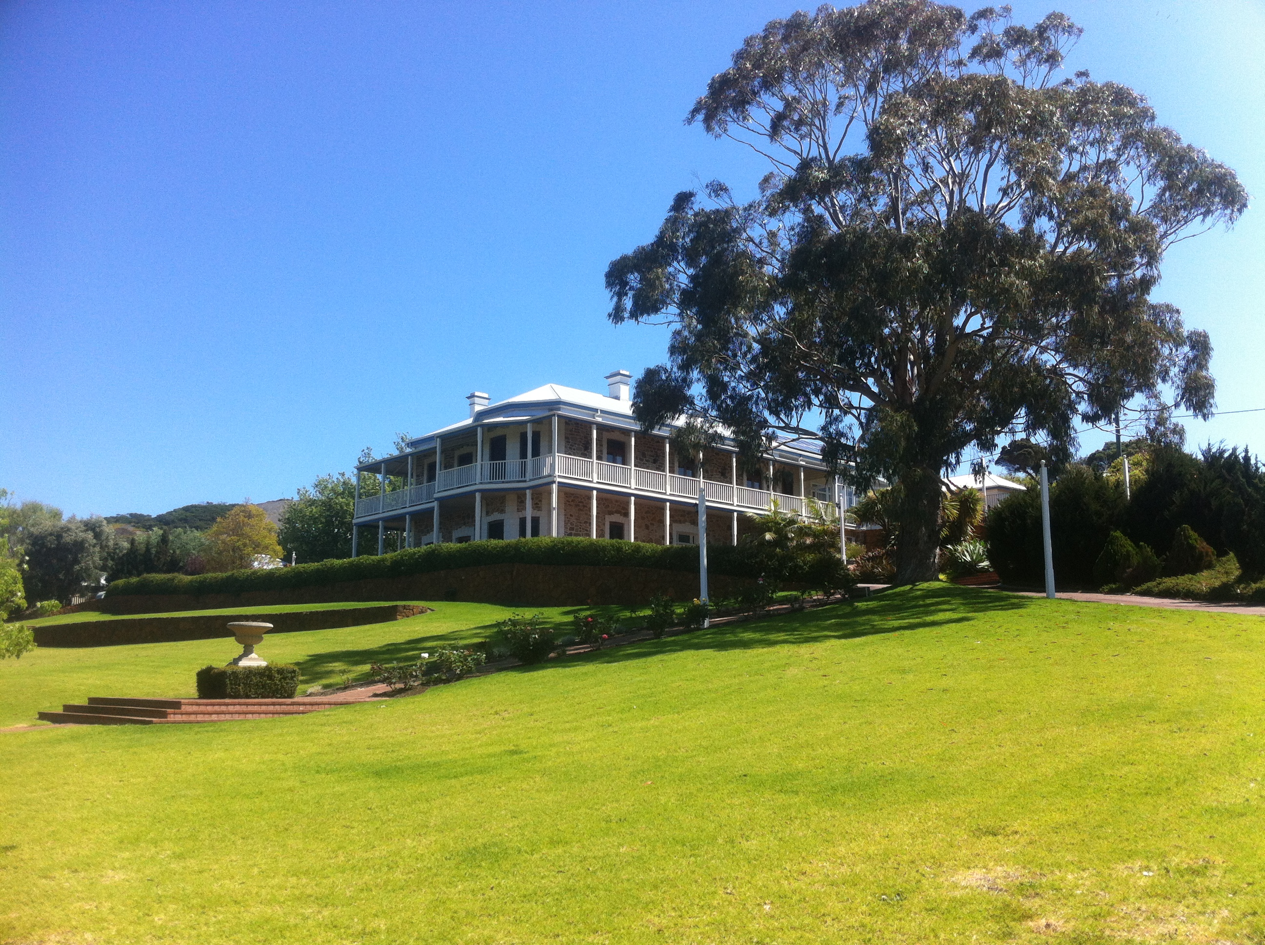 The Rocks, also known as government cottage in Albany Western Australia